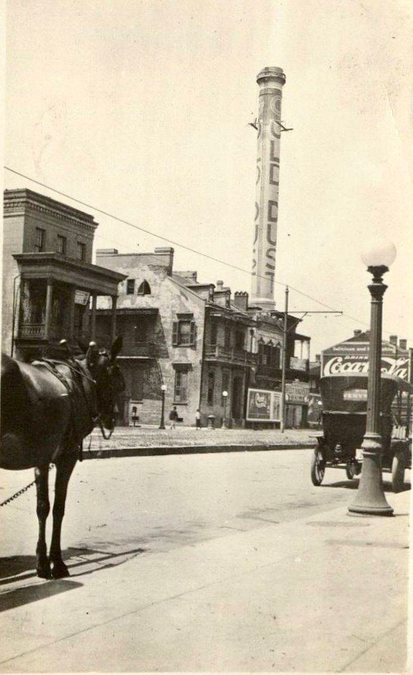 1914 photo of 300 block of North Rampart Street, lake side, New Orleans, showing brick buildings and large smoke stack (of the Consumers Electric Company plant) painted with text advertisement "Gold Dust" (popular widely advertised washing powder of the era). Also visible are a horse (apparently hitched to a wagon or carriage out of frame) and automobile near the (river side) curb, a street light on pole; wall of building in distance at right has "Coca-Cola" ad painted on it.